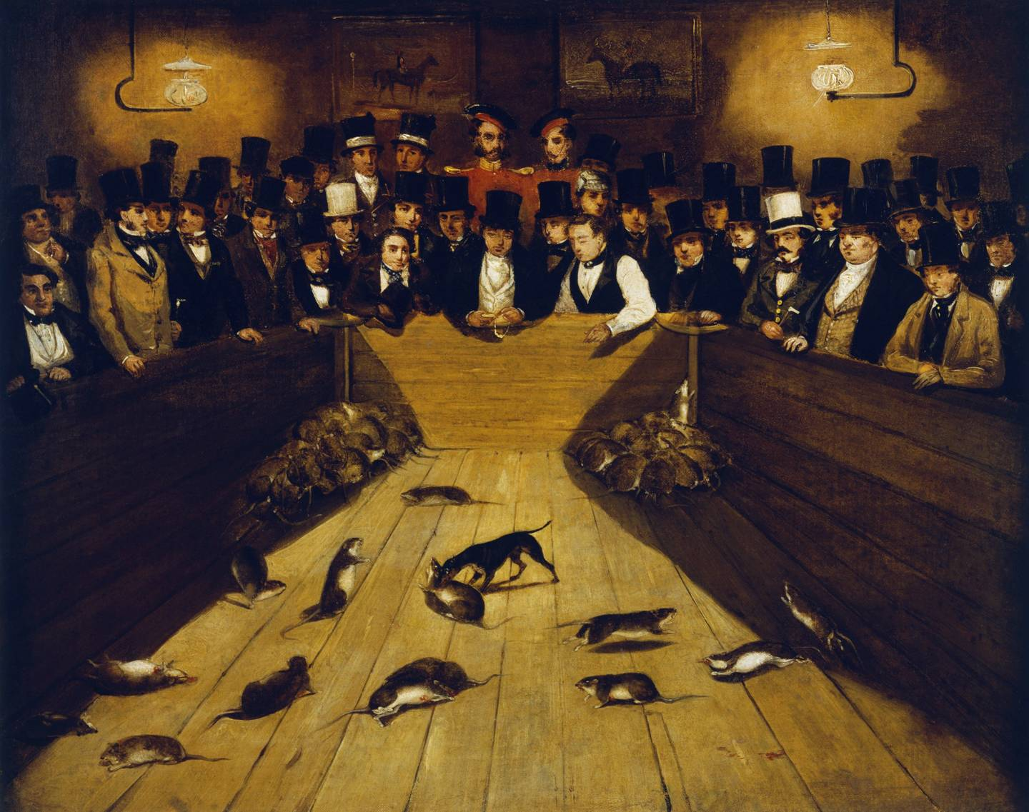 Tiny the Wonder, created circa 1850 by Jemmy Shaw. 'Rat-Catching at the Blue Anchor Tavern, Bunhill Row, Finsbury', c1850. A black and tan terrier called "Tiny the Wonder" is attempting to kill two hundred barn rats in under an hour, a feat which he accomplished on two separate occasions, on 28th March 1848 and 27th March 1849. Count d'Orsay is among the audience, and the man in the centre holding a watch is the time-keeper name Jemmy Shaw. Tiny was owned by Shaw, the proprietor of the Blue Anchor Inn, who could store up to 2,000 farm rats in his establishment. The original painting is in the Museum of London.